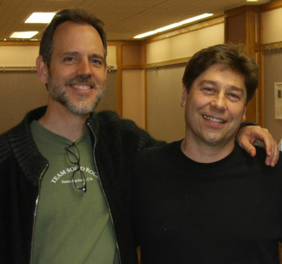 American singer-songwriter and guitarist David Wilcox (left), with coffee entrepreneur and music promoter Ahrre Maros. Maros manages two concert series in the northern New Jersey area which raise money for charitable causes.